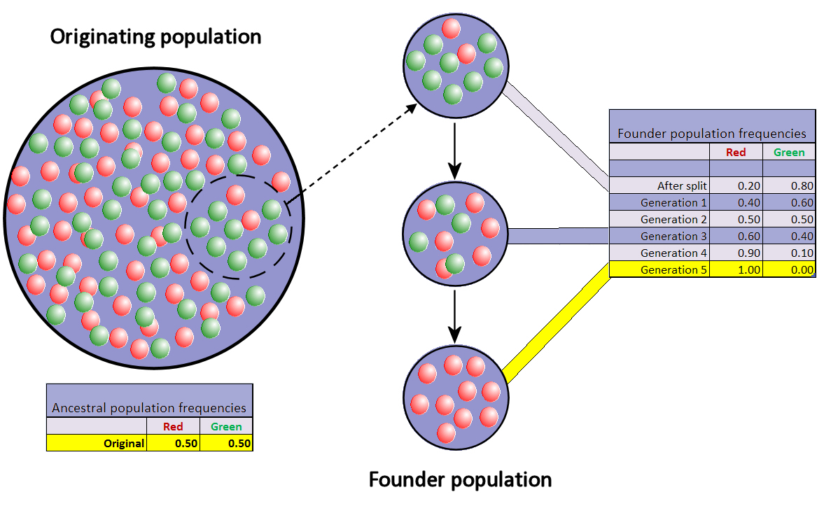 Representation of the founder effect: the colored balls represent the two alleles for a specific locus which are present in a hypothetical population; once a random subgroup of a population becomes separated from its ancestral population, the allele frequencies in the two groups' subsequent generations can diverge widely within a relatively short period of time as a consequence of a purely random selection of alleles for reproduction.